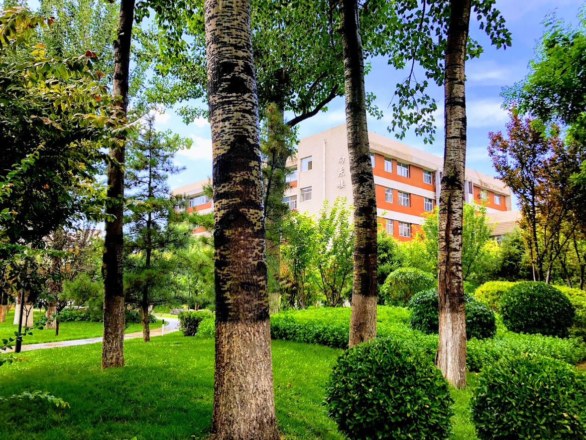 Xiangdong Building